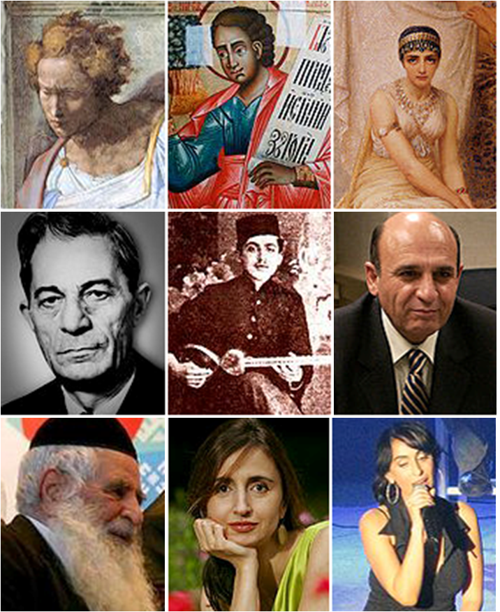 This is a new version to - File:12 Famous Persian Jews .png A montage of 9 notable Persian Jews. Top row, left to right: Daniel - the central protagonist of the Book of Daniel. Habakkuk - the prophet in the Hebrew Bible. Esther - the eponymous heroine of the Biblical Book of Esther. Middle row, left to right: Solayman Haïm - a well-known Iranian lexicographer, translator, playwright and essayist. Morteza Neydavood - Composer, preserved classical Iranian music by recording hundreds of its various dastgah's and goosheh's. Shaul Mofaz - Israeli M.P. and former Minister of Defence of Israel. Bottom row, left to right: Yousef Hamadani Cohen - Spiritual leader of the Iranian Jews. Roya Hakakian - a Jewish Iranian-American writer. Rita Yahan-Farouz - an Israeli pop-star, of Persian descent.